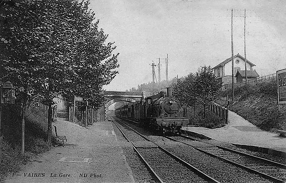 The former railway station of Vaires-sur-Marne (Seine-et-Marne, France) in the 1910s on an old postcard. It was on the Paris side of the road bridge over the tracks. It has been replaced by a new station on the Meaux side of this bridge.